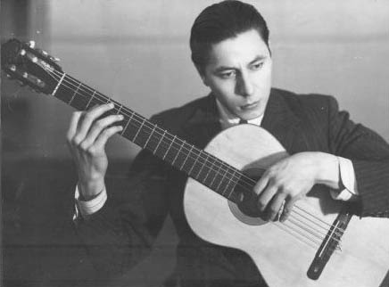 A young Atahualpa Yupanqui pictured for Sintonía magazine of Argentina.